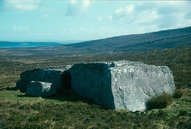 Dwarfie Stane, Hoy. This Neolithic rock-cut tomb is unique in Great Britain (there is a similar one at Gwendalough, Co, Wicklow). The stone is 8.5m long and 4.3m wide, and a passage 2.3m long has been cut into it to two cells. The square block in front of the stone was apparently intended for sealing the entrance. This photo was taken in 1974.